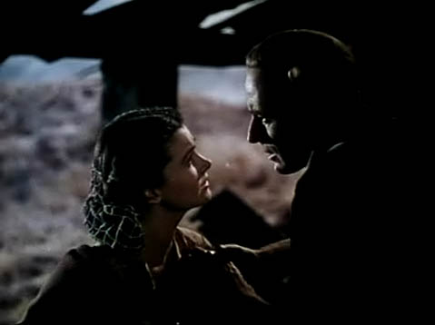 Cropped screenshot of Vivien Leigh and Leslie Howard from the trailer for the film Gone with the Wind